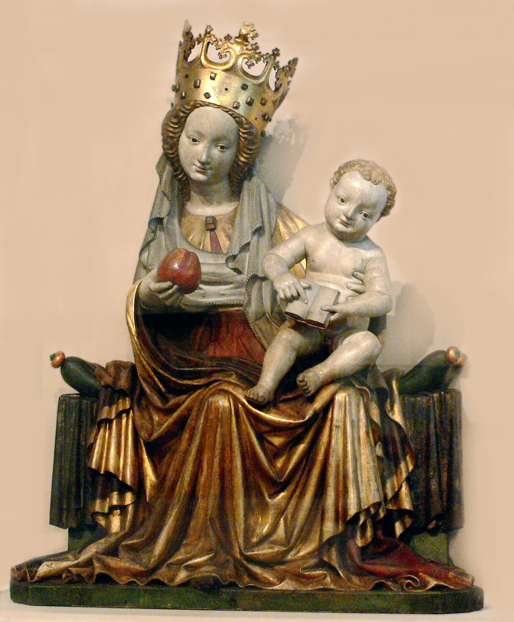 Seeon Madonna, so-called Master of Seeon; Chiemgau area, c. 1430; limewood, original coloring and gilding Bayerisches Nationalmuseum München, Inv. Nr. MA 1126, erworben 1855